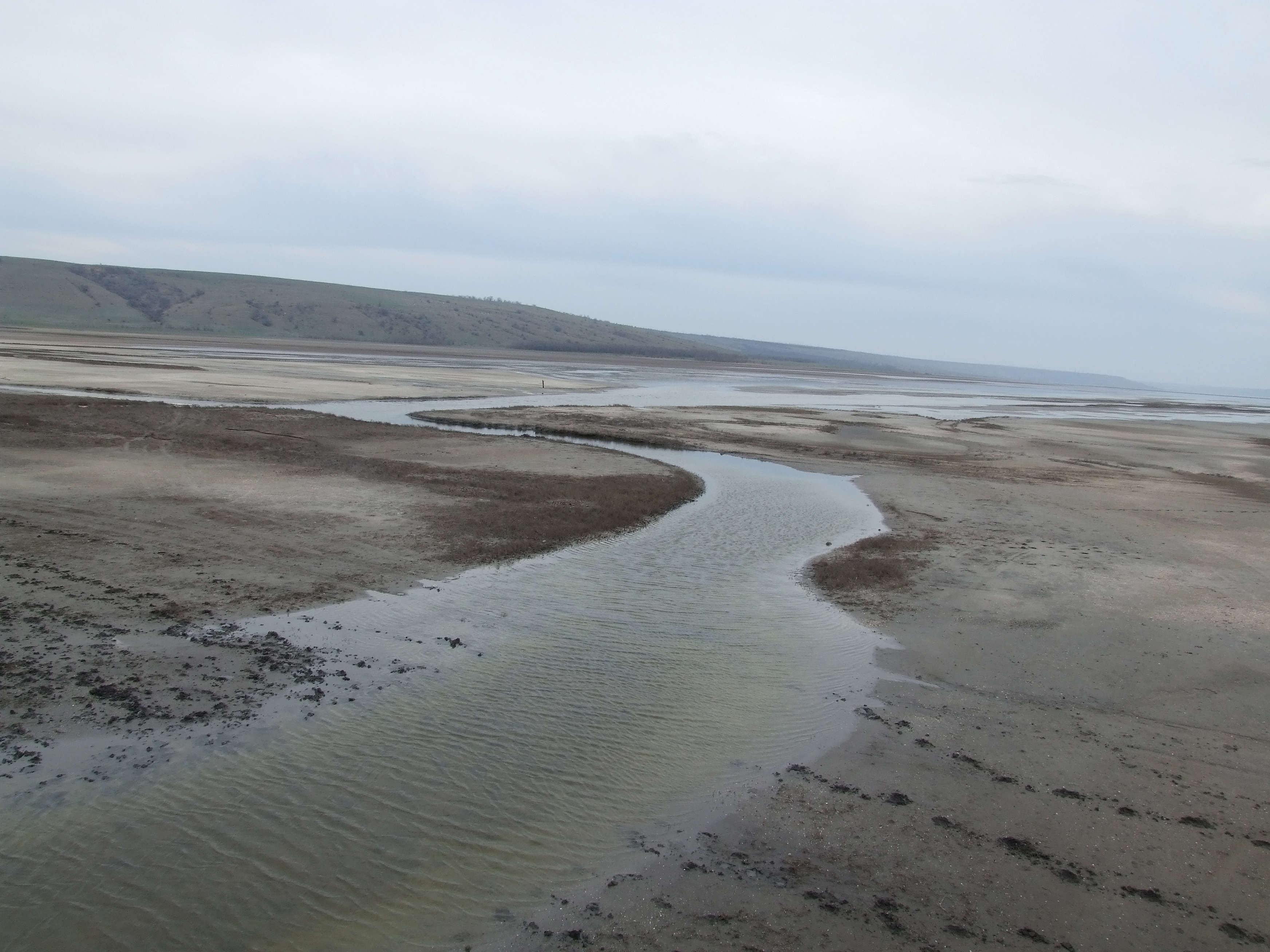 Emptying of Velikyi Kuyalnyk river into Kuyalnytskyi liman, Odessa Oblast, Ukraine